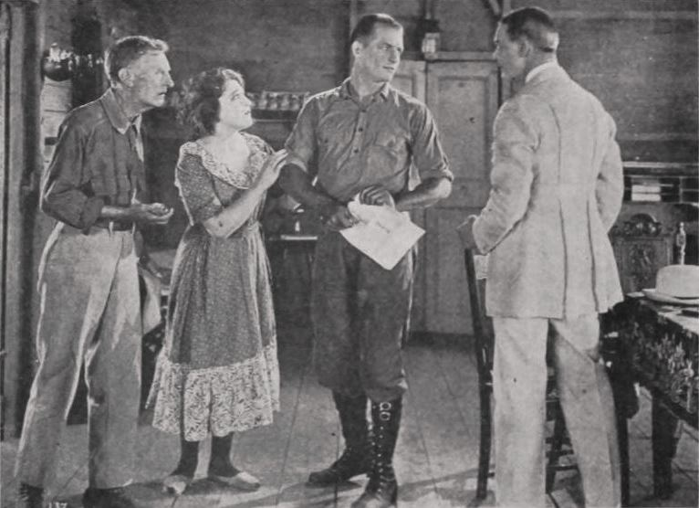 Still from the American drama film Tropical Love (1921) with F.A. Turner, Ruth Clifford, Reginald Denny, and Huntley Gordon, on page 73 of the October 22, 1921 Exhibitors Herald.